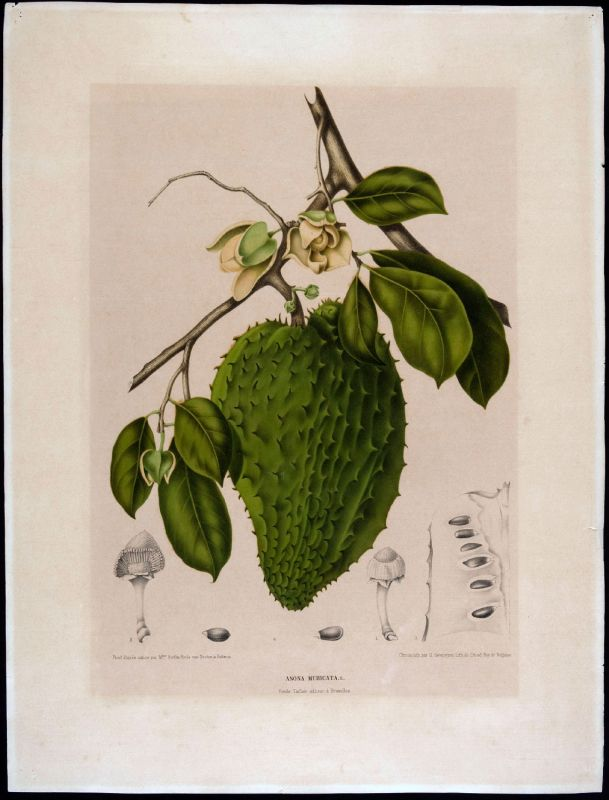 Litho. The leaf, flower and fruit of the Anona muricata L. (soursop)